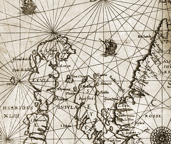 Zoom on the map of Outer hebrides, Scotland.